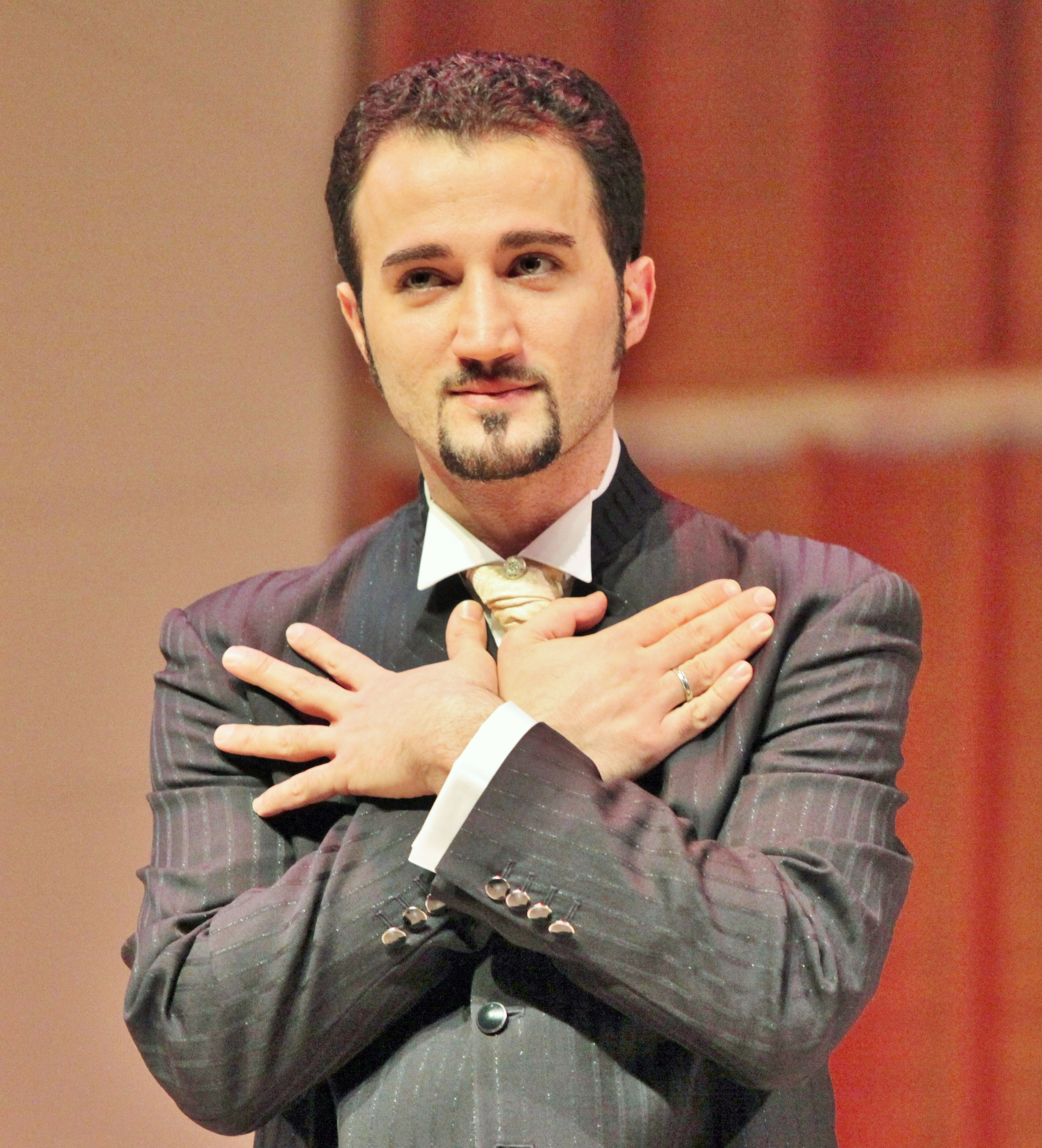 Luciano Lamonarca in Concert at Kaufman Music Center, New York, March 2009